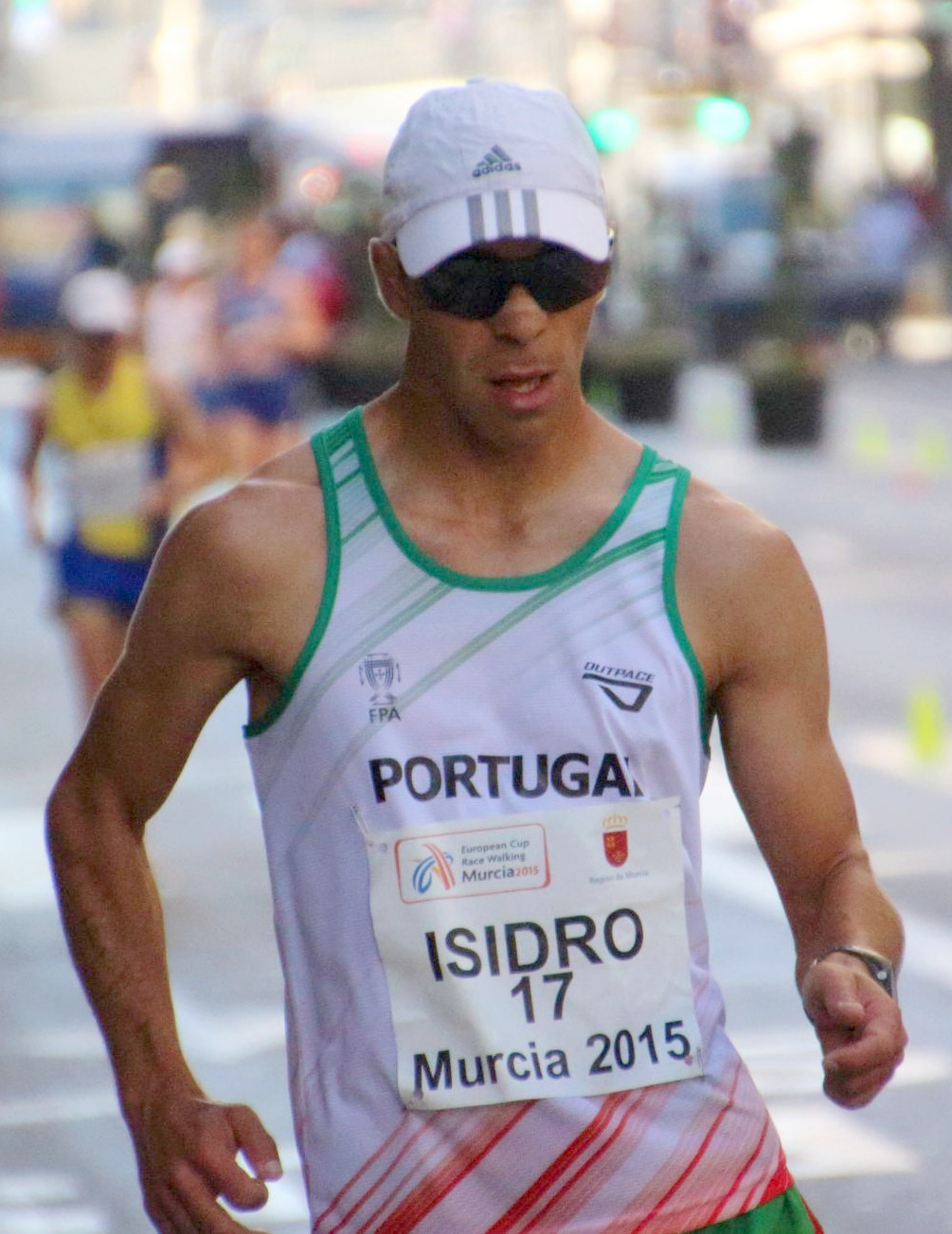 17-Pedro Isidro (POR) in the European Cup Race Walking 2015 (Murcia, Spain).